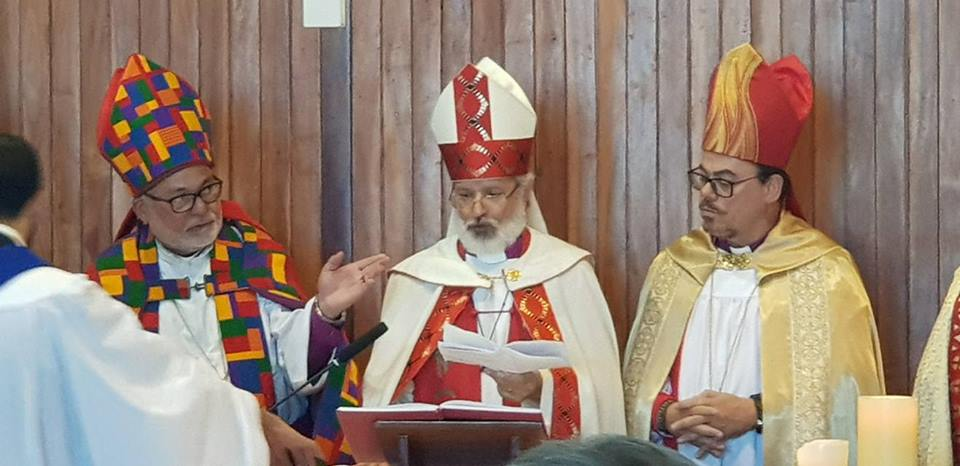 Anglican Bishops of Brazil during the XXXIII General Synod of Anglican Episcopal Church of Brazil